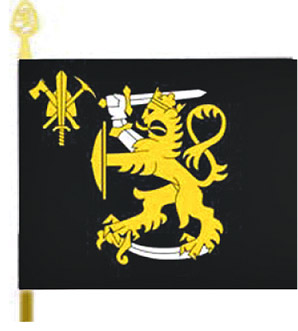 The Colour of Engineer and NBC School, Finnish Army. The Finnish lion carrying a shield symbolizes NBC defence. The minor emblem, on the other hand, symbolizes Engineering branch.